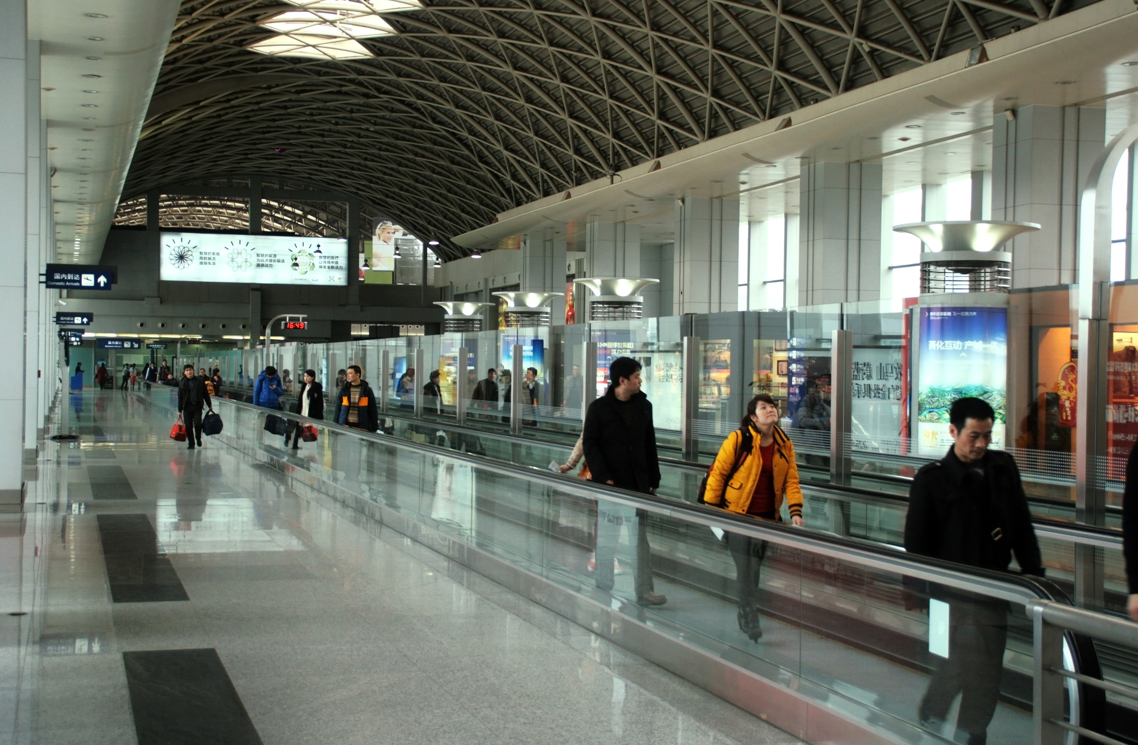 Transporting system of Chengdu Shuangliu International Airport